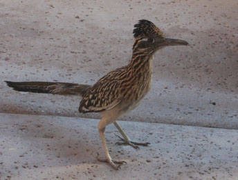 Greater Roadrunner